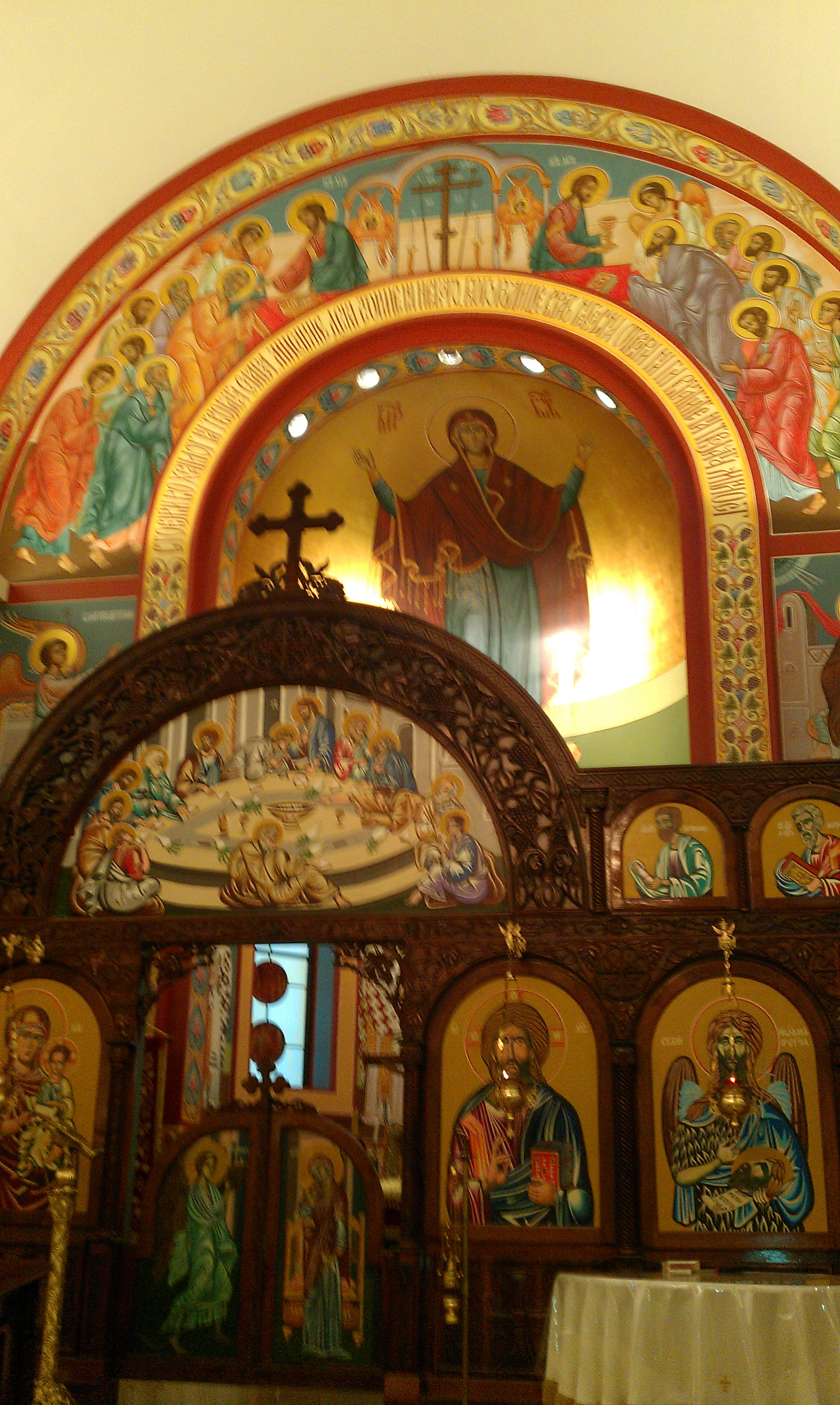 The holy Virgin Mary on the far wall of the altar St. Mary's Macedonian Orthodox Church in Reynoldsburg, Ohio